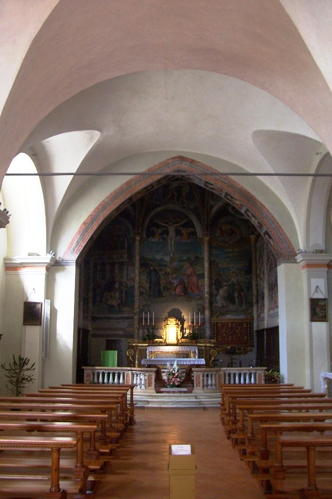 Navate. Church of st John the Baptist. Edolo, Val Camonica